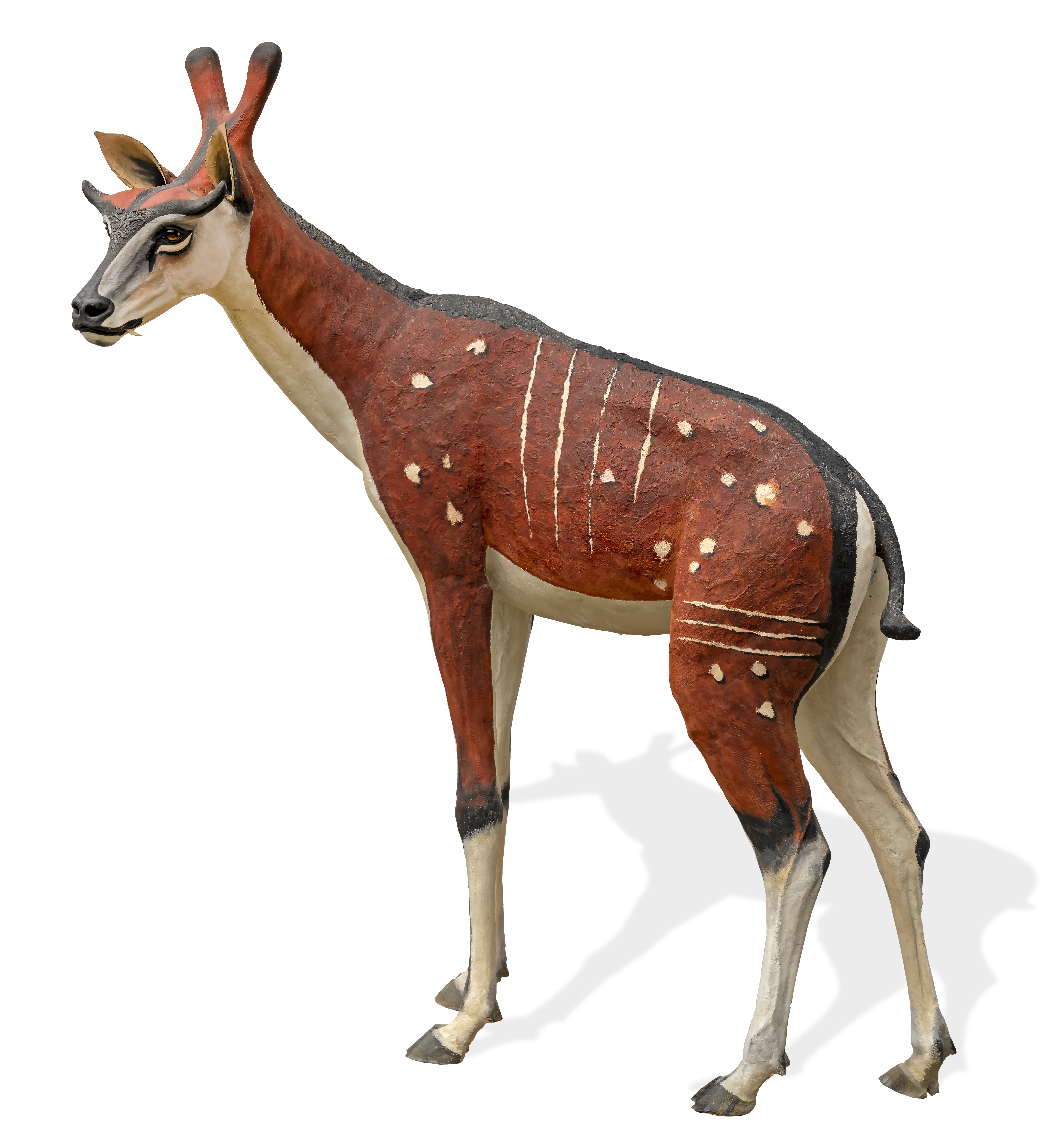 Ampelomeryx ginsburgi v ;full-size 3D reconstruction